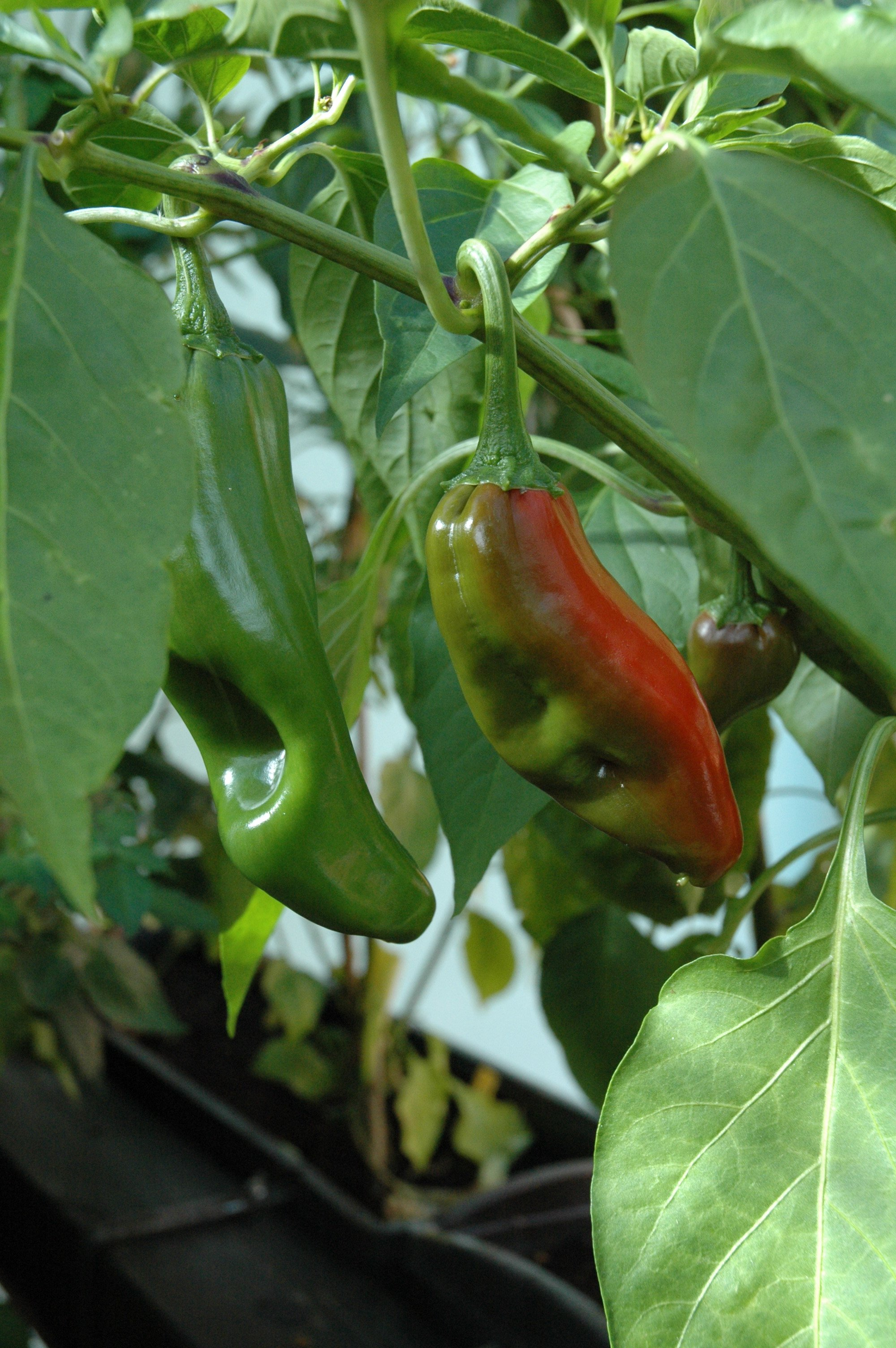 Fruits of Capsicum annuum variety 'NuMex Big Jim', a mildly hot pepper